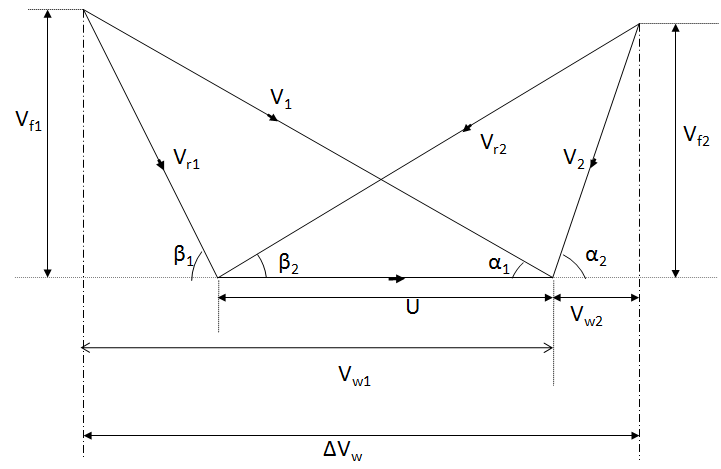 Velocity Vector Diagram